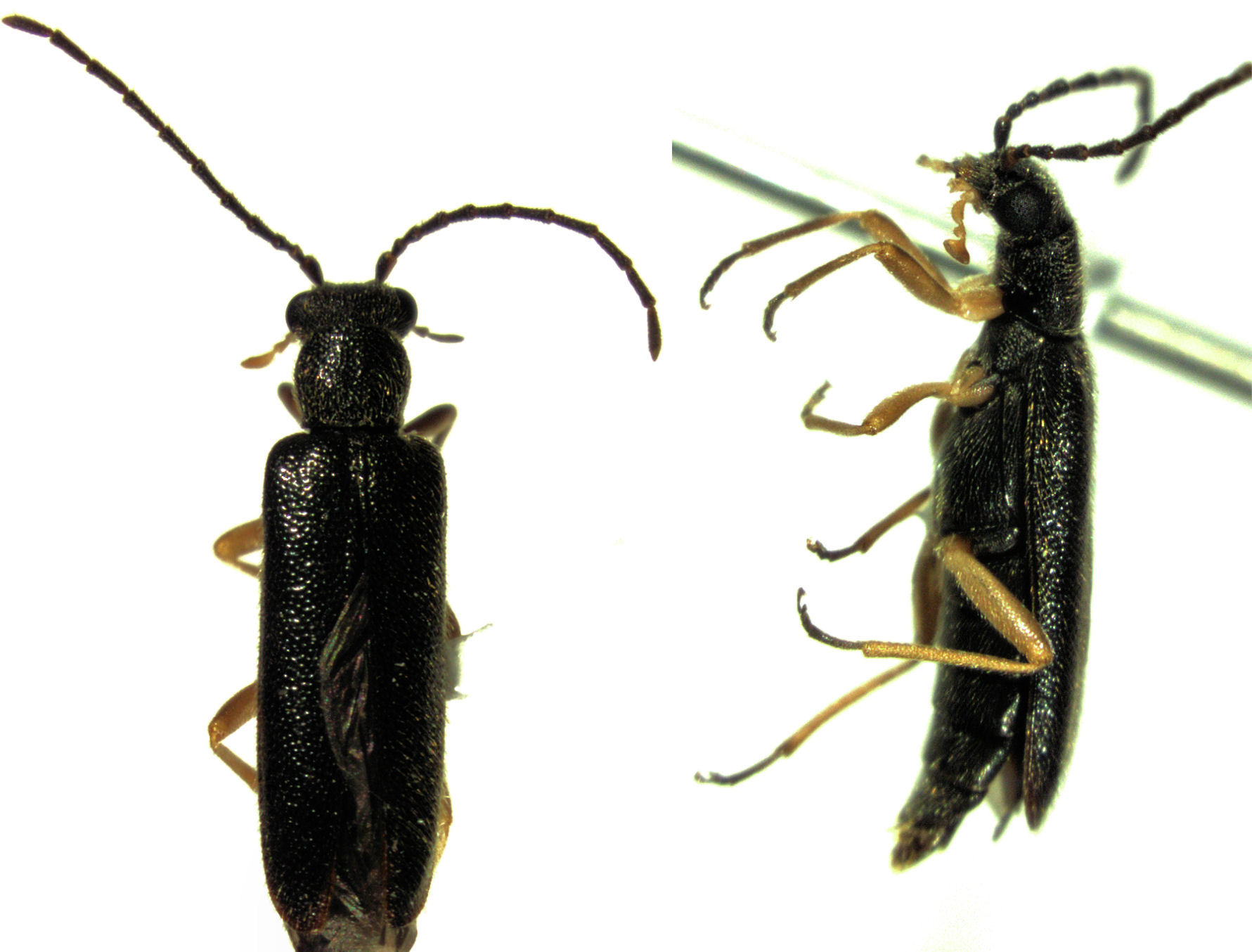 adult male Techmessa longicollis, length about 7 mm